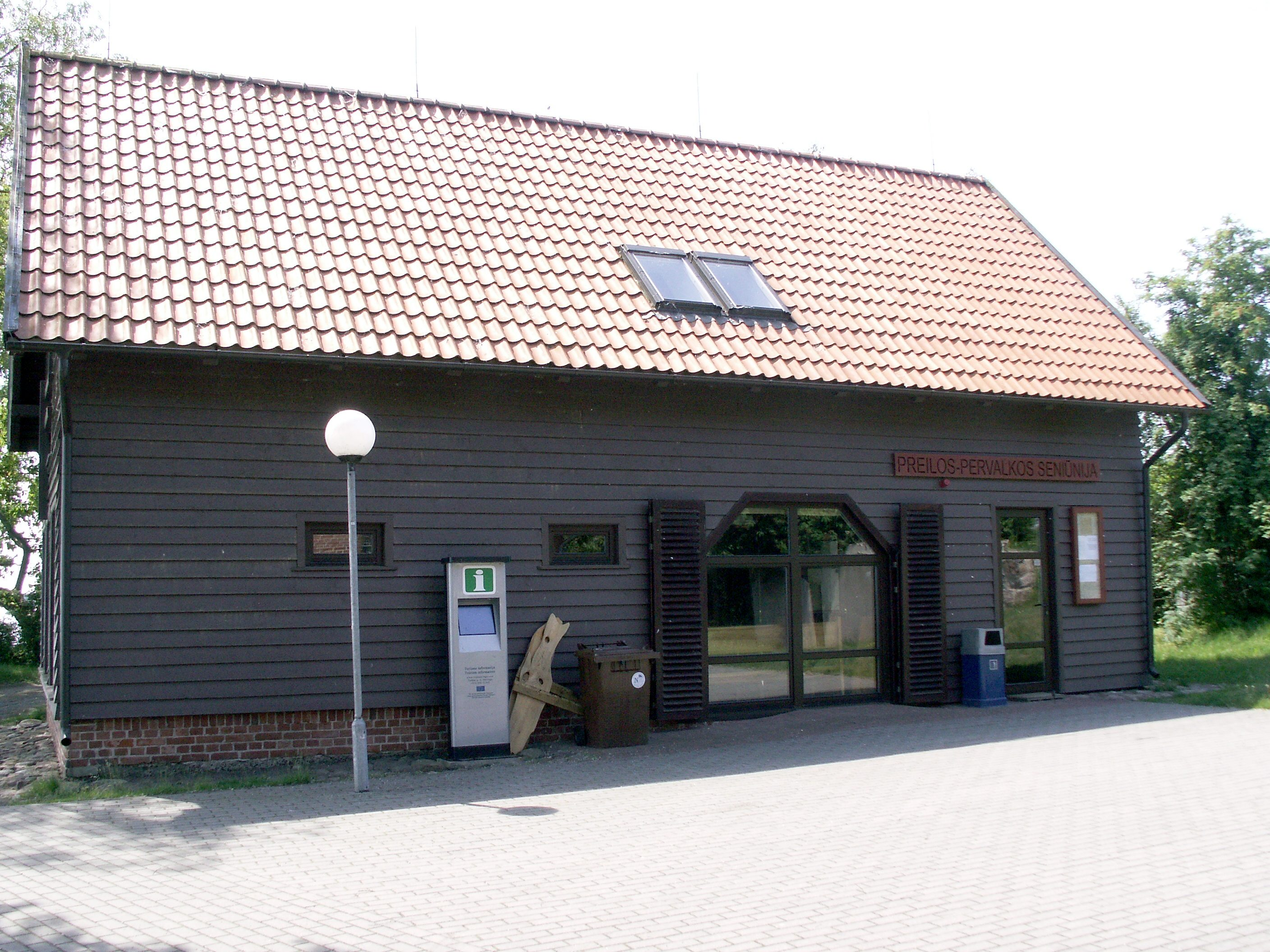 Preila elderly, Neringa, Lithuania